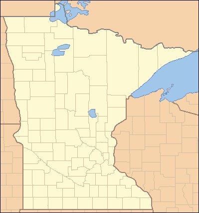 Locator Map of Minnesota, United States